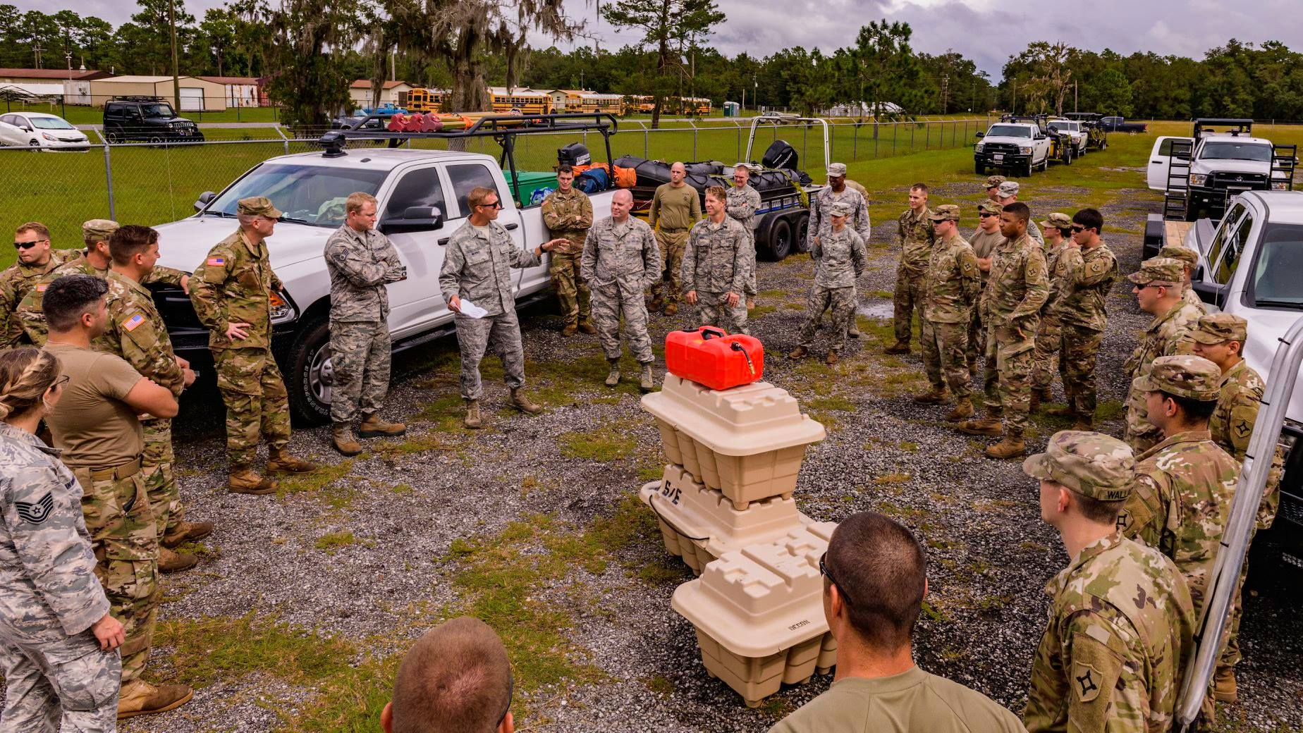 Members of Florida National Guard Chemical, biological, radiological and nuclear defense (CBRN) Enhanced Response Force Package prepare to help citizens in affected areas prior to landfall of Hurricane Michael at Camp Blanding Joint Training Center near Starke, Florida on Oct. 9, 2018. (Photo by Mr. Charles Oettel)